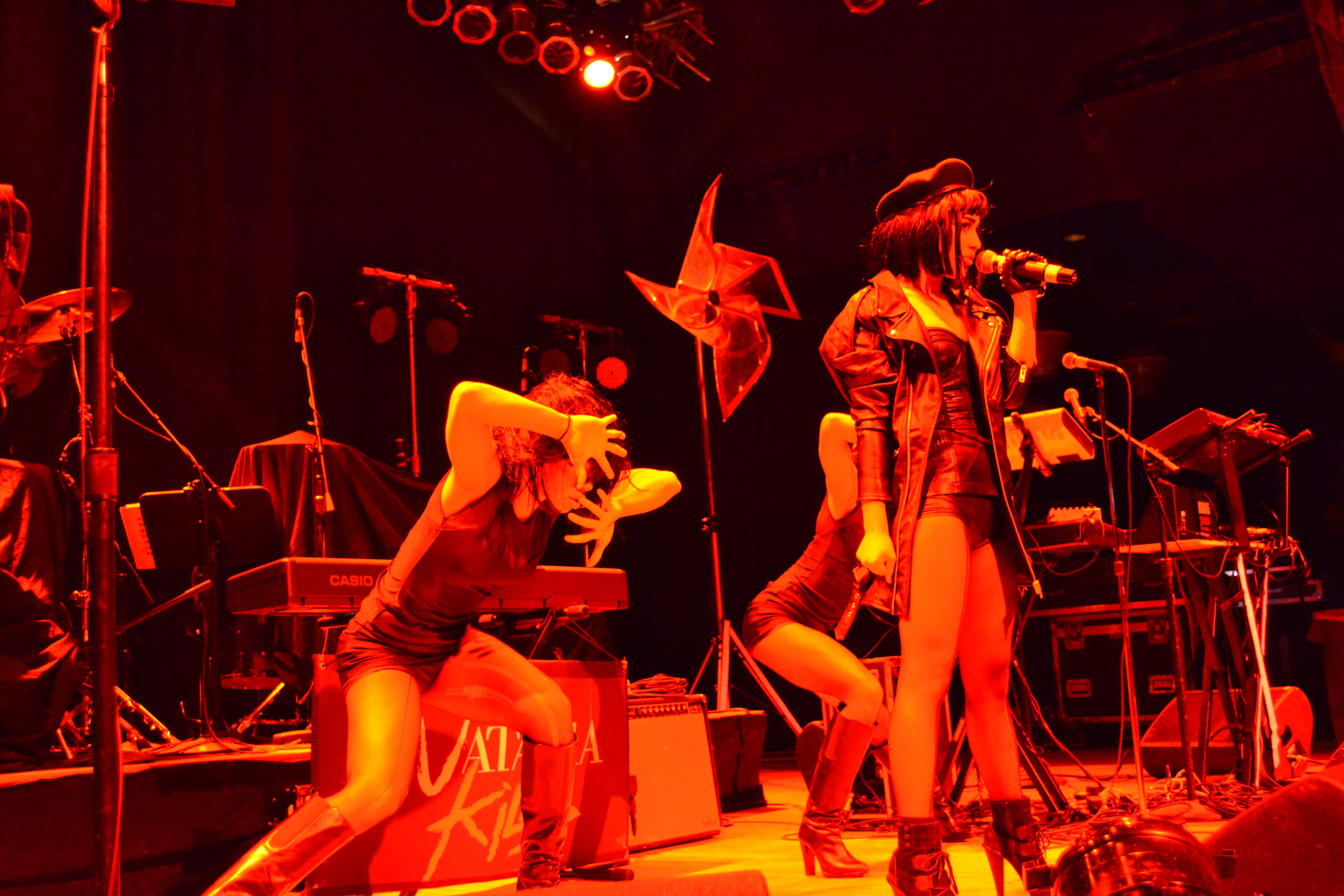 Natalia Kills opening for Robyn at the House of Blues in Cleveland, OH.